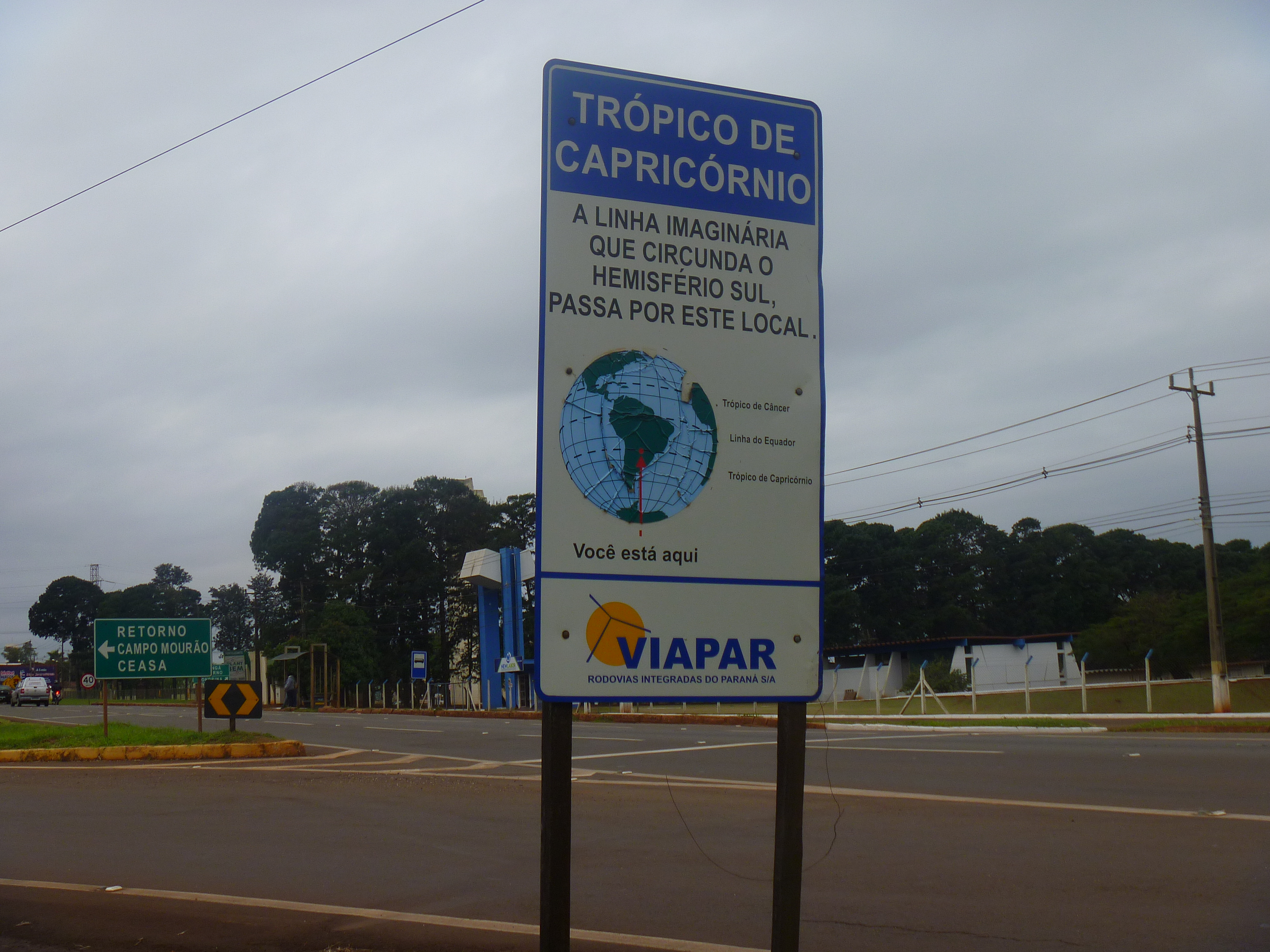 Maringa, PR